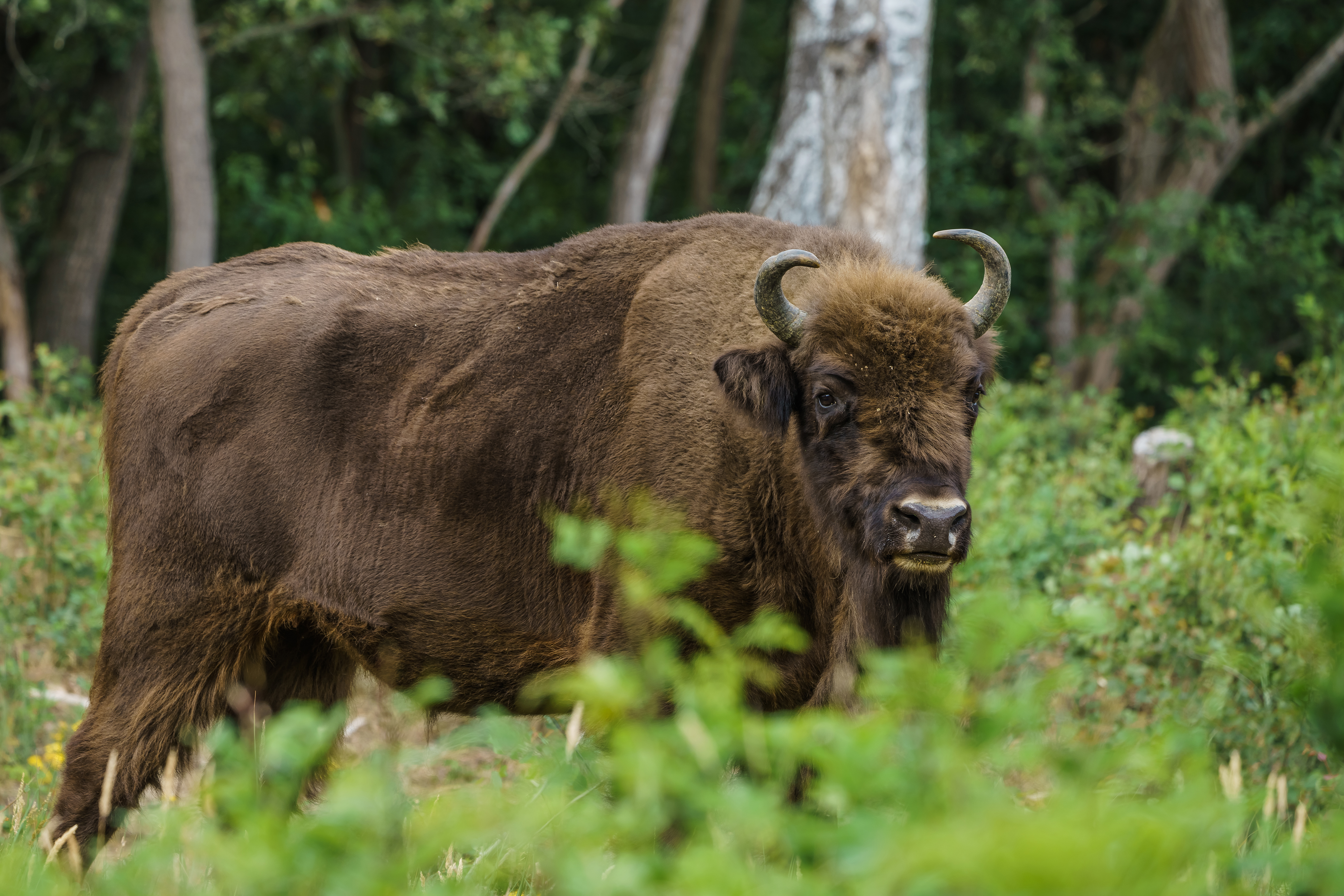 Protected area «Döberitzer Heide» near Potsdam, Germany: European Bison